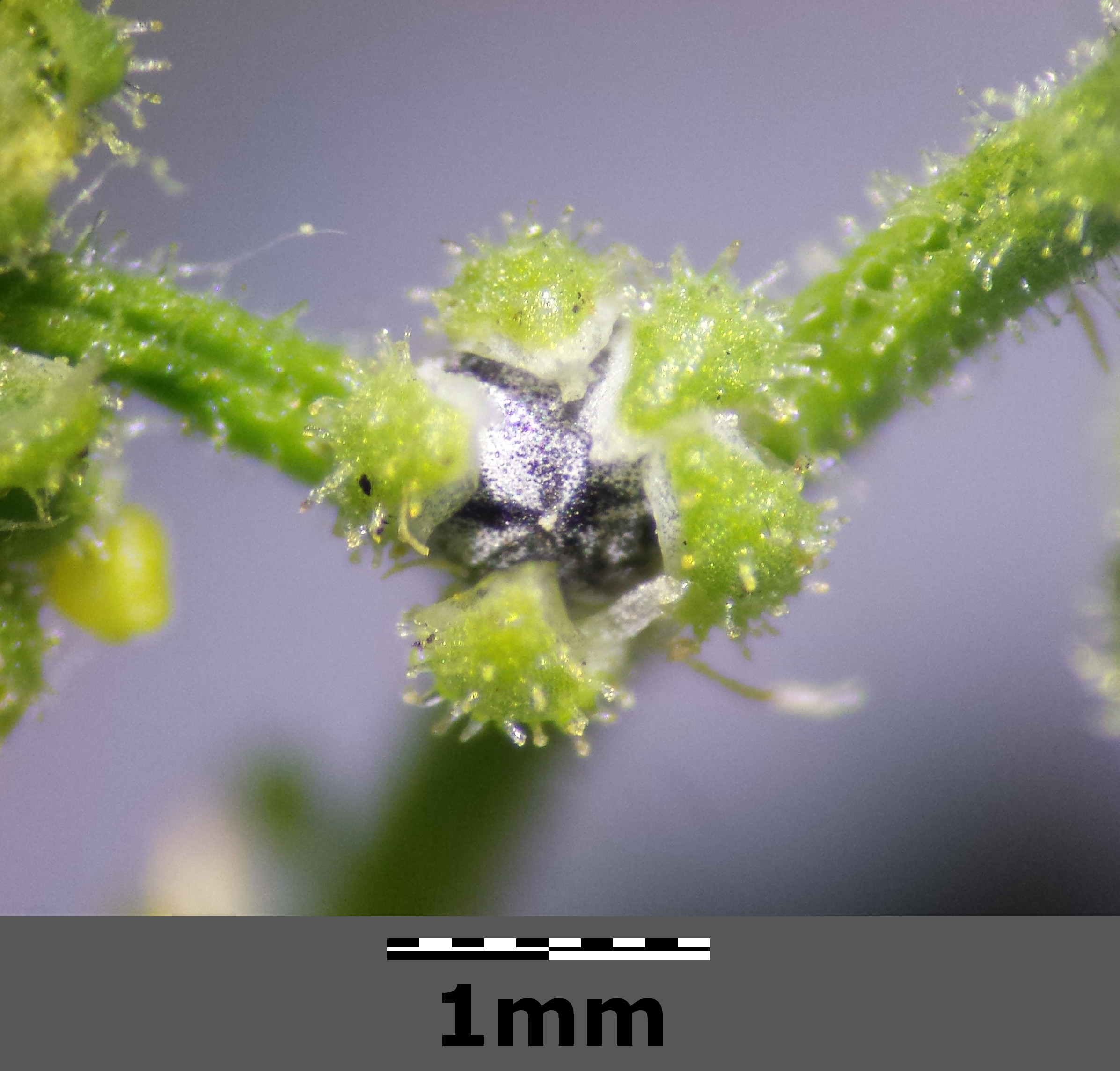 Flower/fruit Taxonym: Dysphania botrys ss Fischer et al. EfÖLS 2008 ISBN 978-3-85474-187-9 Location: Bruckhaufen, Vienna-Floridsdorf - ca. 160 m a.s.l. Habitat: stony rudeal area